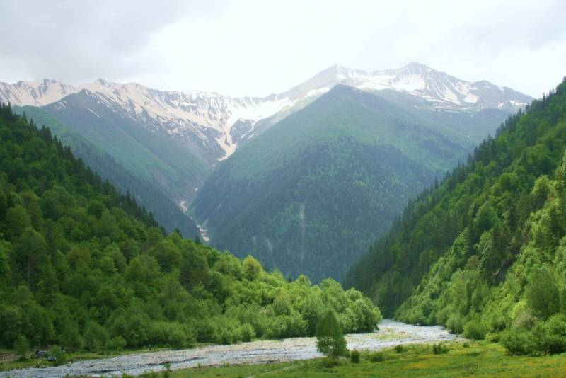 Landscape in South Ossetia near Dzattiatykau, Dzauski District